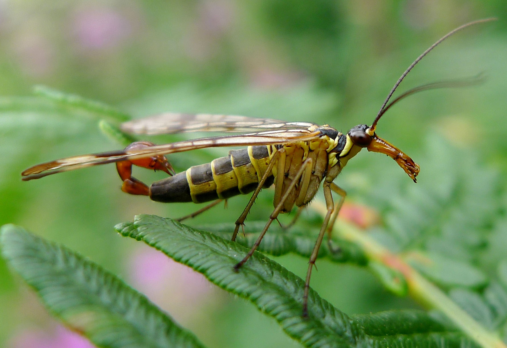 Scorpion Fly. Panorpa communis. Mecoptera